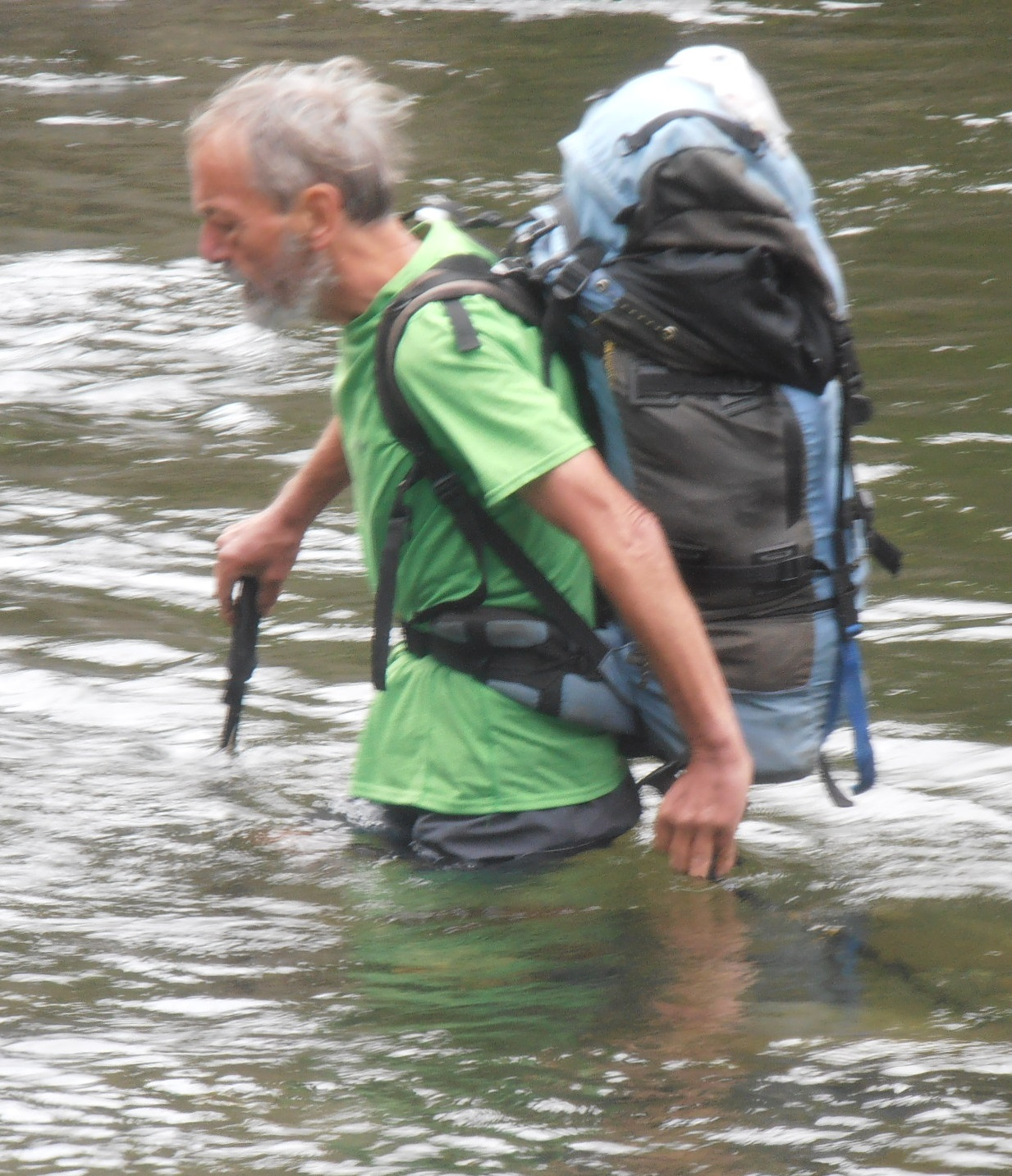 Sarang crossing the Otaki River at the Blue Bluff Slip